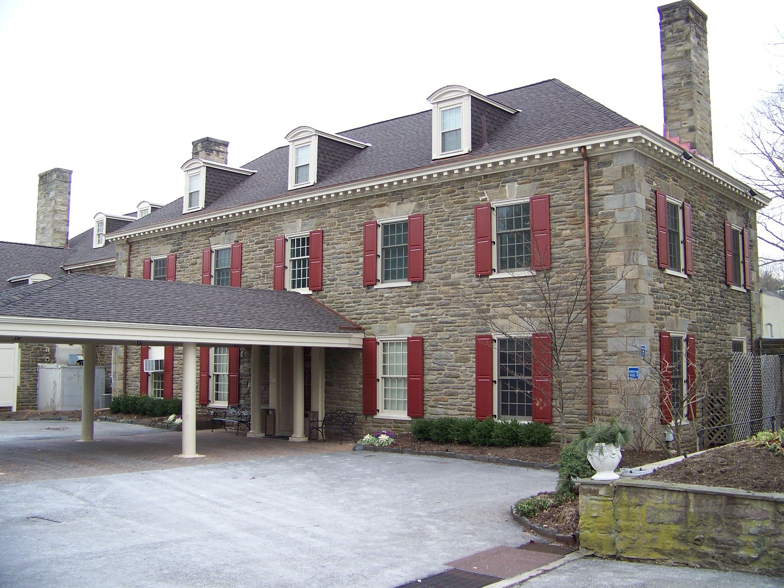 Meadowlands Country Club The Main House Blue Bell, PA 19422